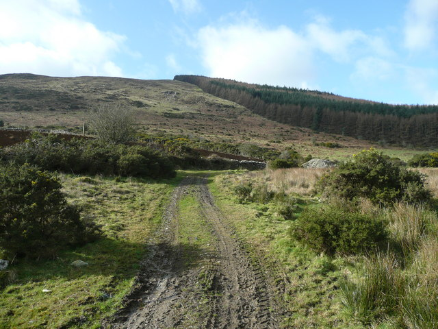 Annagh Hill Distinctive half-forested hill viewed from near Clonroe Cross Roads.